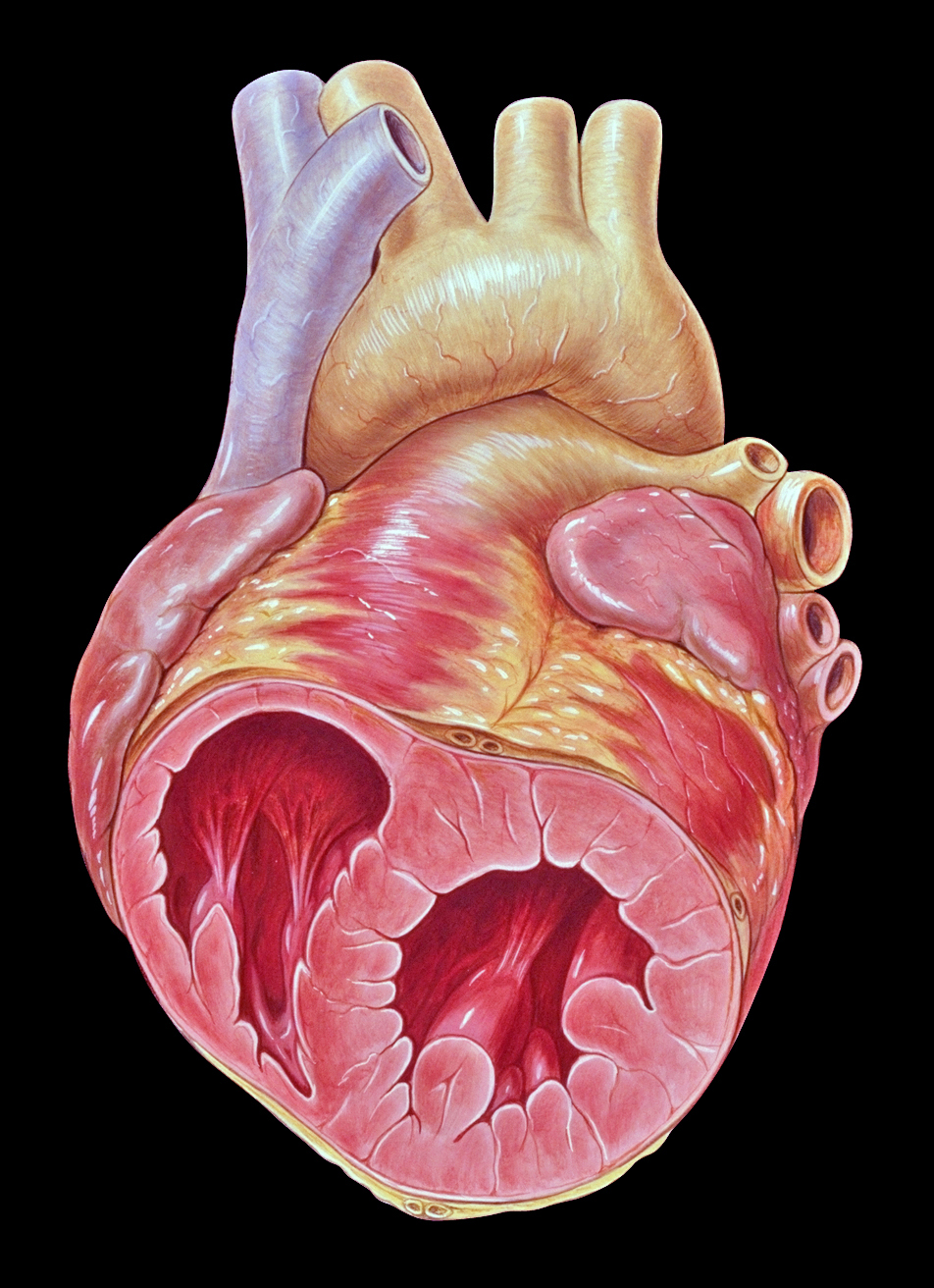 Heart normal short axis echocardiography LV view